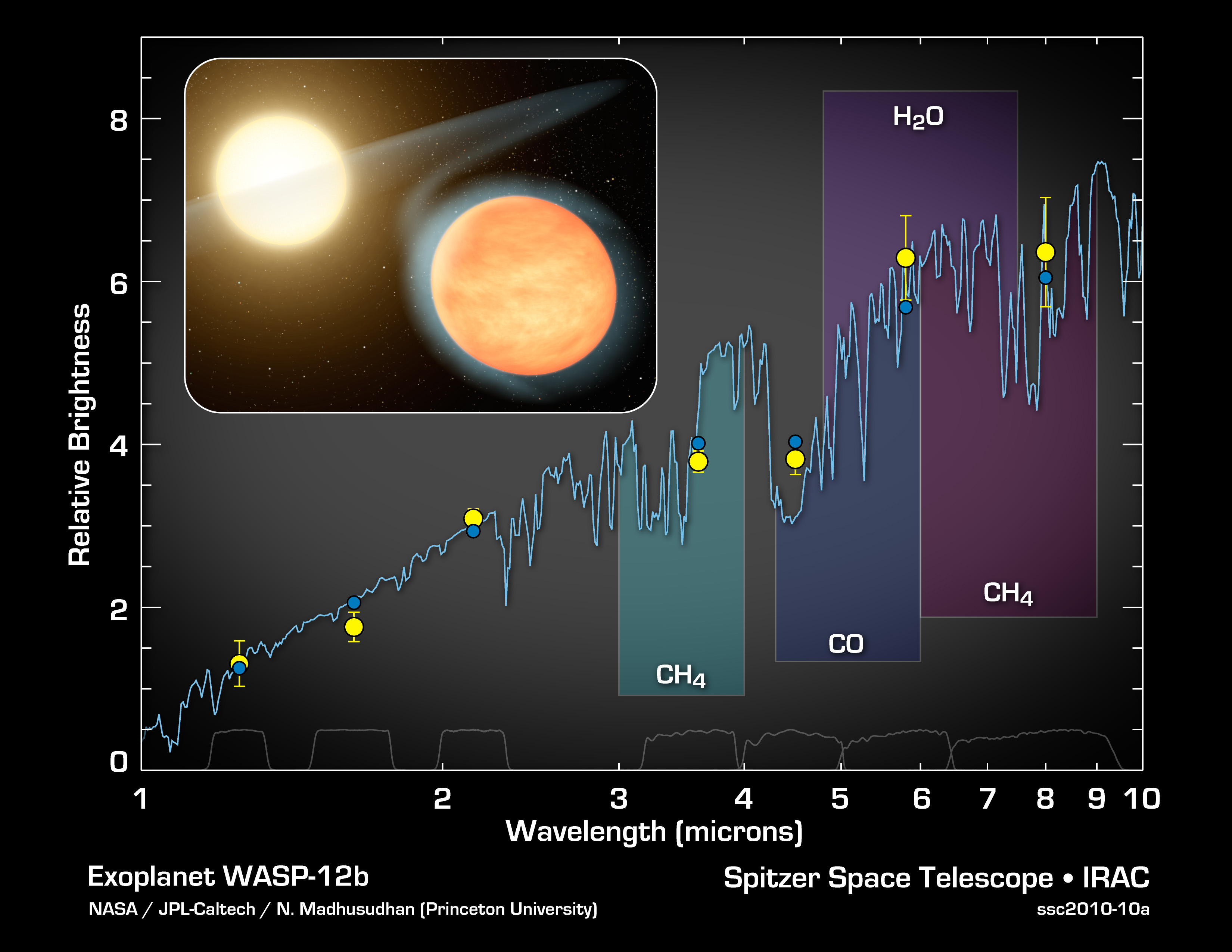 This plot of data from NASA's Spitzer Space Telescope indicates the presence of molecules in the planet WASP-12b -- a super-hot gas giant that orbits tightly around its star